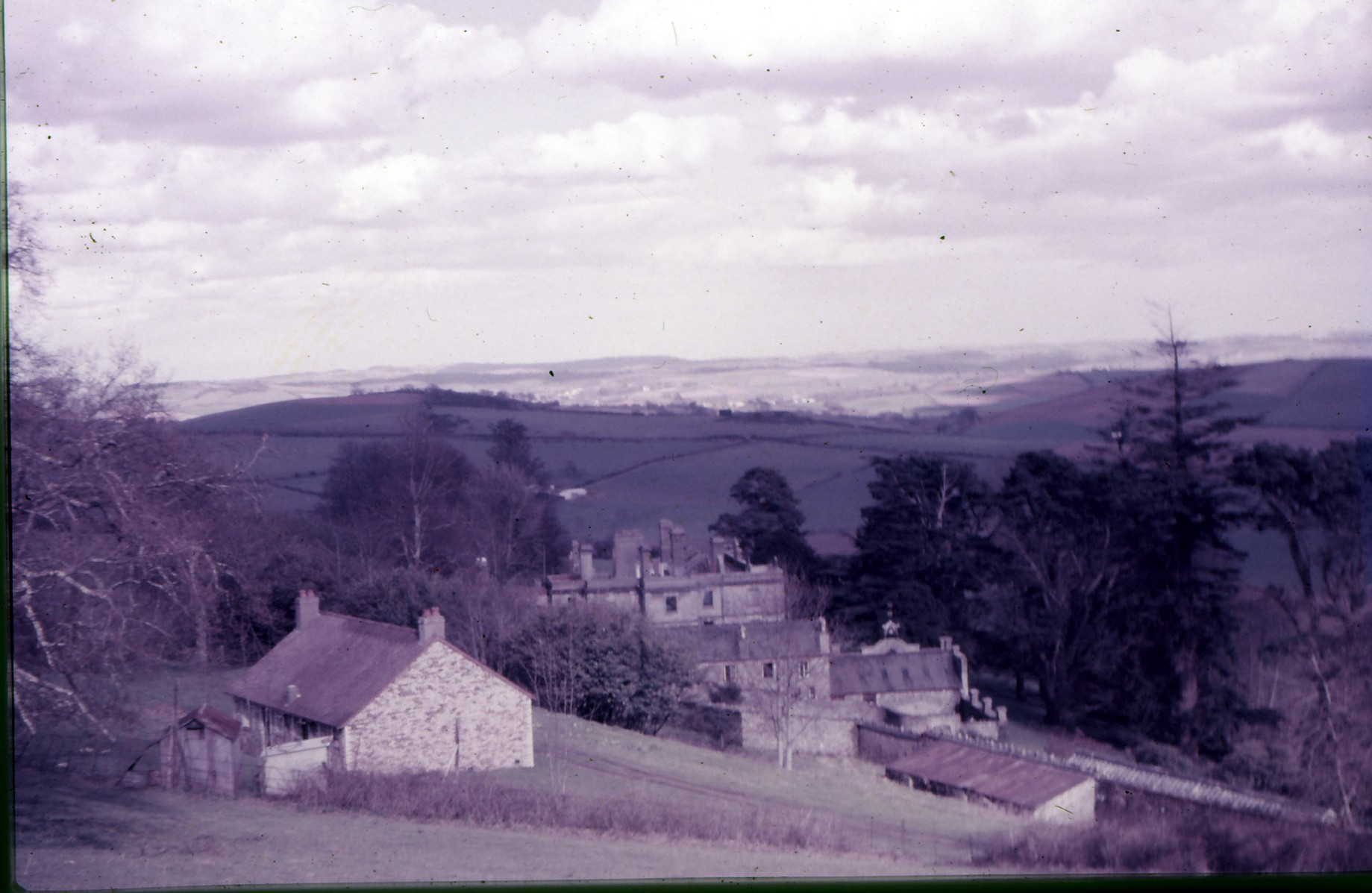 Bigadon House in 1962.